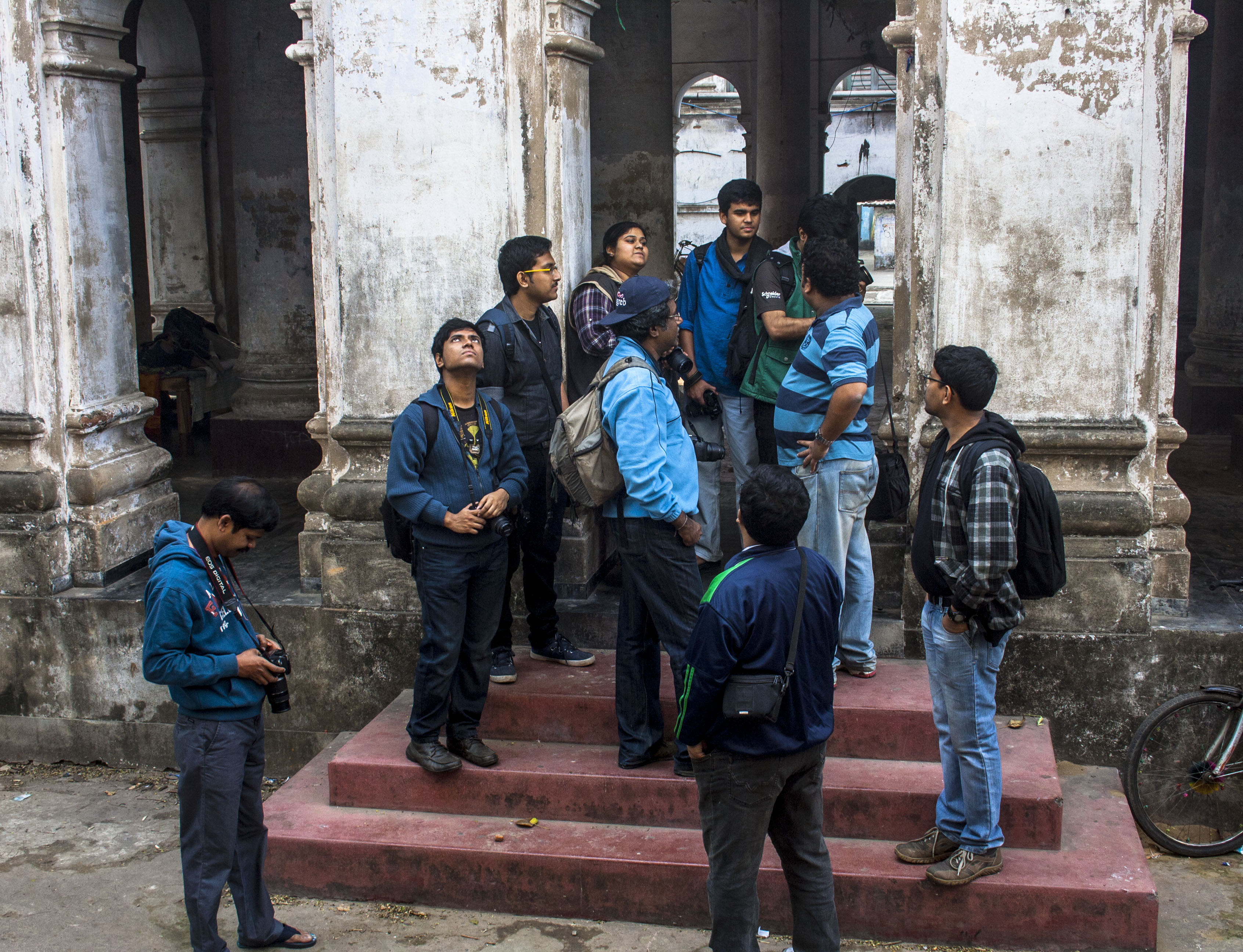 Photo has been taken during the "Wikipedia Takes Kolkata 4" Date 14th December 2014, Inside Boro Rasbari, Tollygunge, Kolkata